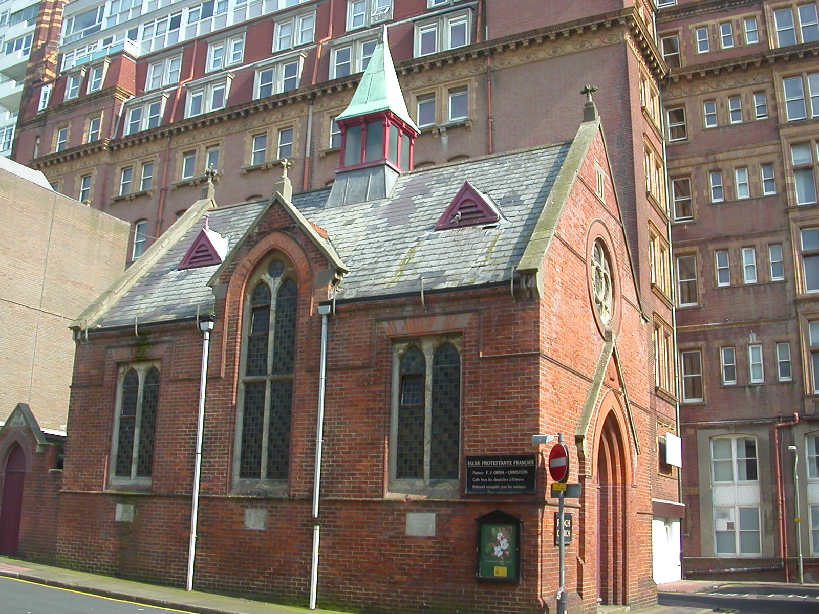 L'Eglise Protestante Française (French Protestant Church), Queensbury Mews, Brighton. Photographed on 31st March 2007.